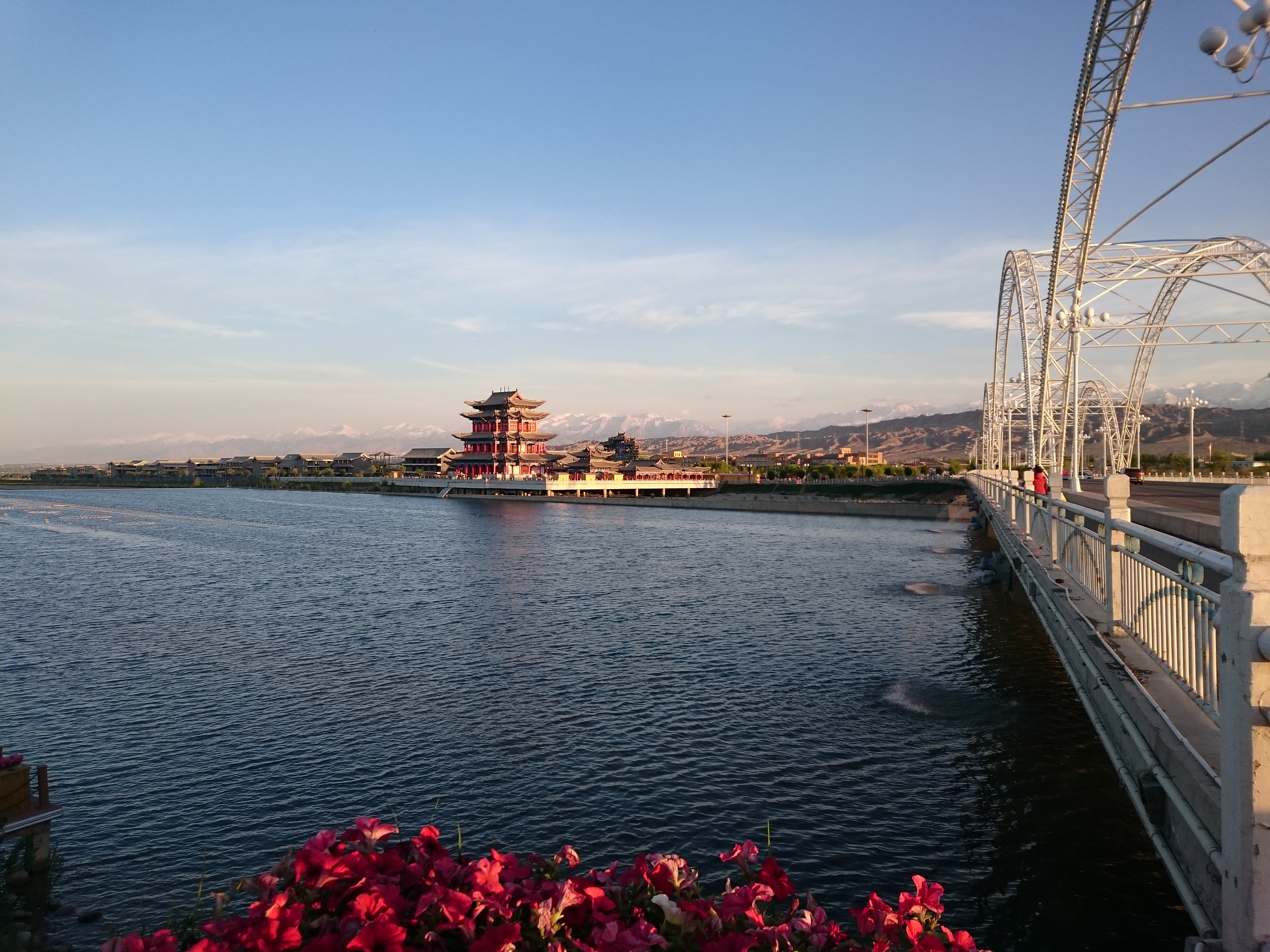 Bridge over Taolai River